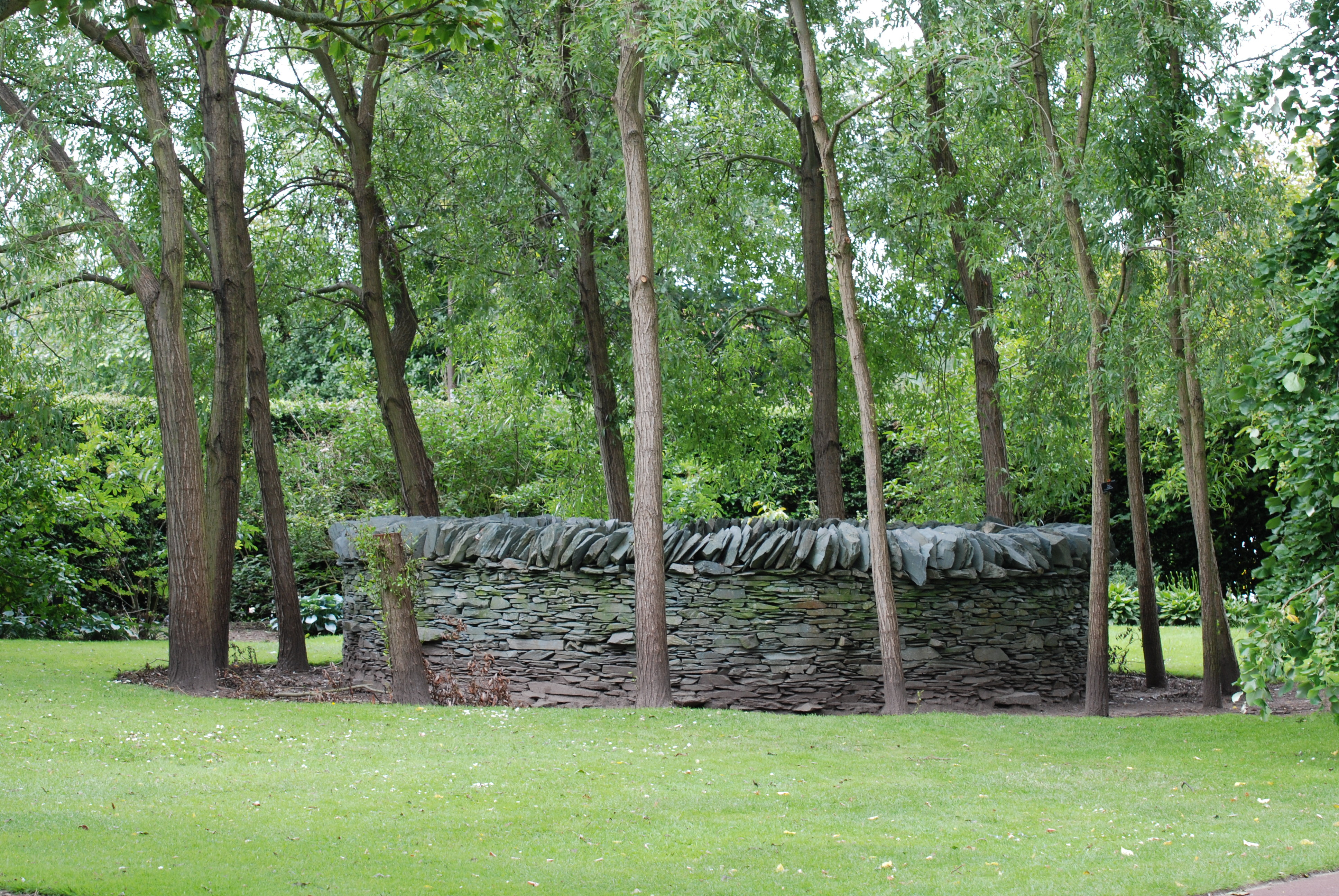 Andy Goldsworthy sculpture in the Royal Botanic Garden Edinburgh